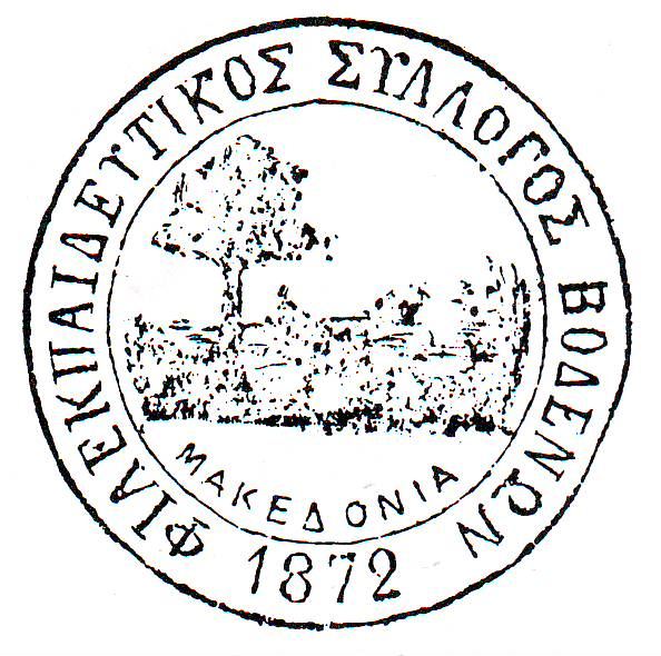 Seal of greek sillogos in Voden / Edessa